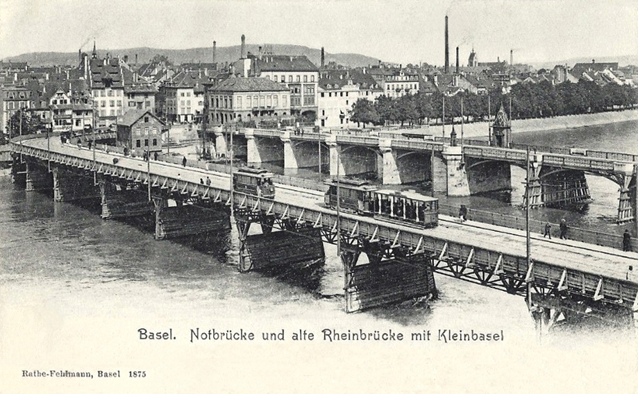 Temporary bridge during the construction of the new "Mittlere Brücke" in Basel, Switzerland. Scan of a postcard.